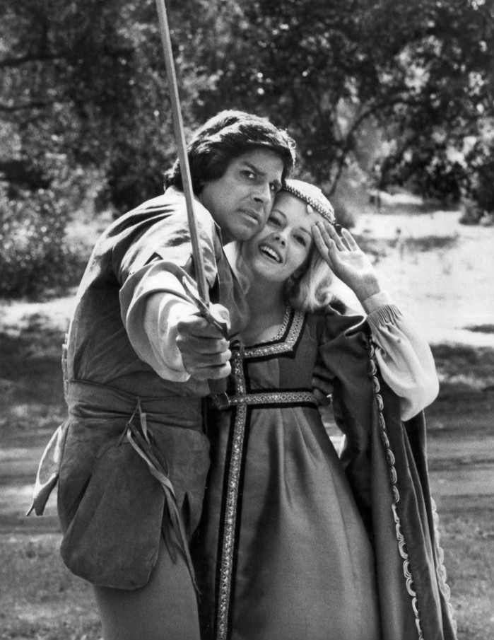 Photo of Richard "Dick" Gautier as Robin Hood and Misty Rowe as Maid Marian from the television program When Things Were Rotten.